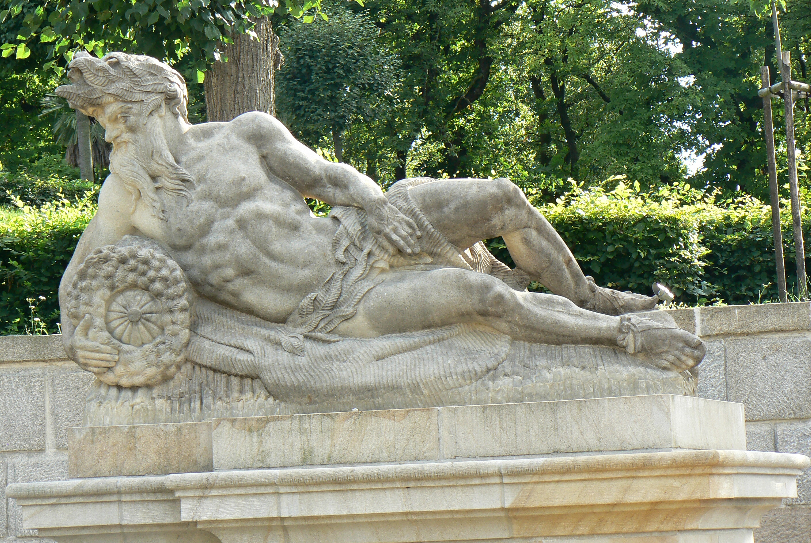 Statue from fountain in French park, Dobříš in Příbram District